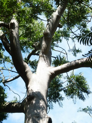 Ailanthus triphysa at RBG Farm Cove